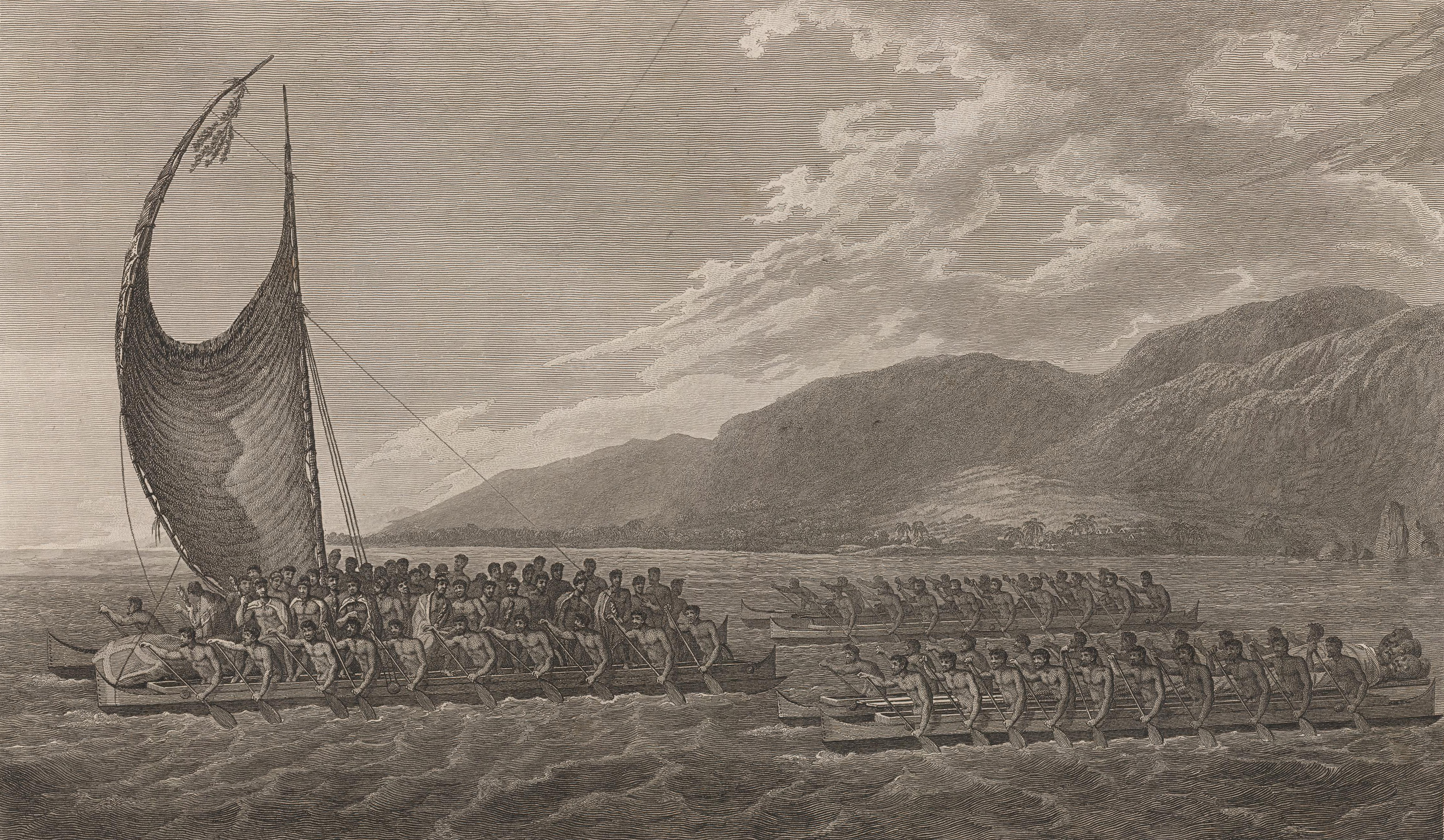 Kalaniopuu, King of Hawaii, bringing presents to Captain Cook. Shows a Hawaiian canoe with "crab-claw" and many oarsmen, carrying Kalaniopuu, the Hawaiian chief, to visit Captain Cook aboard the 'Resolution'. The main canoe, an outriger, is followed by two double-hulled canoes without sails, full of oarsmen, and one boat is carrying wrapped carved figures. The Hawaiian coastal hills can be seen in the right background.